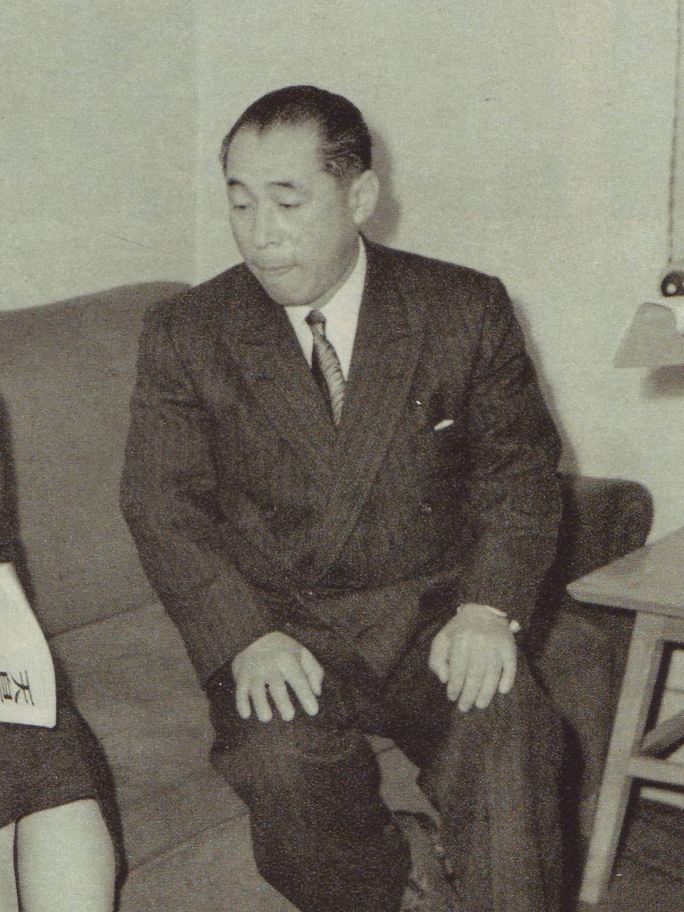 Mitsugi Okura (Film producer from Japan). taken in 1957.